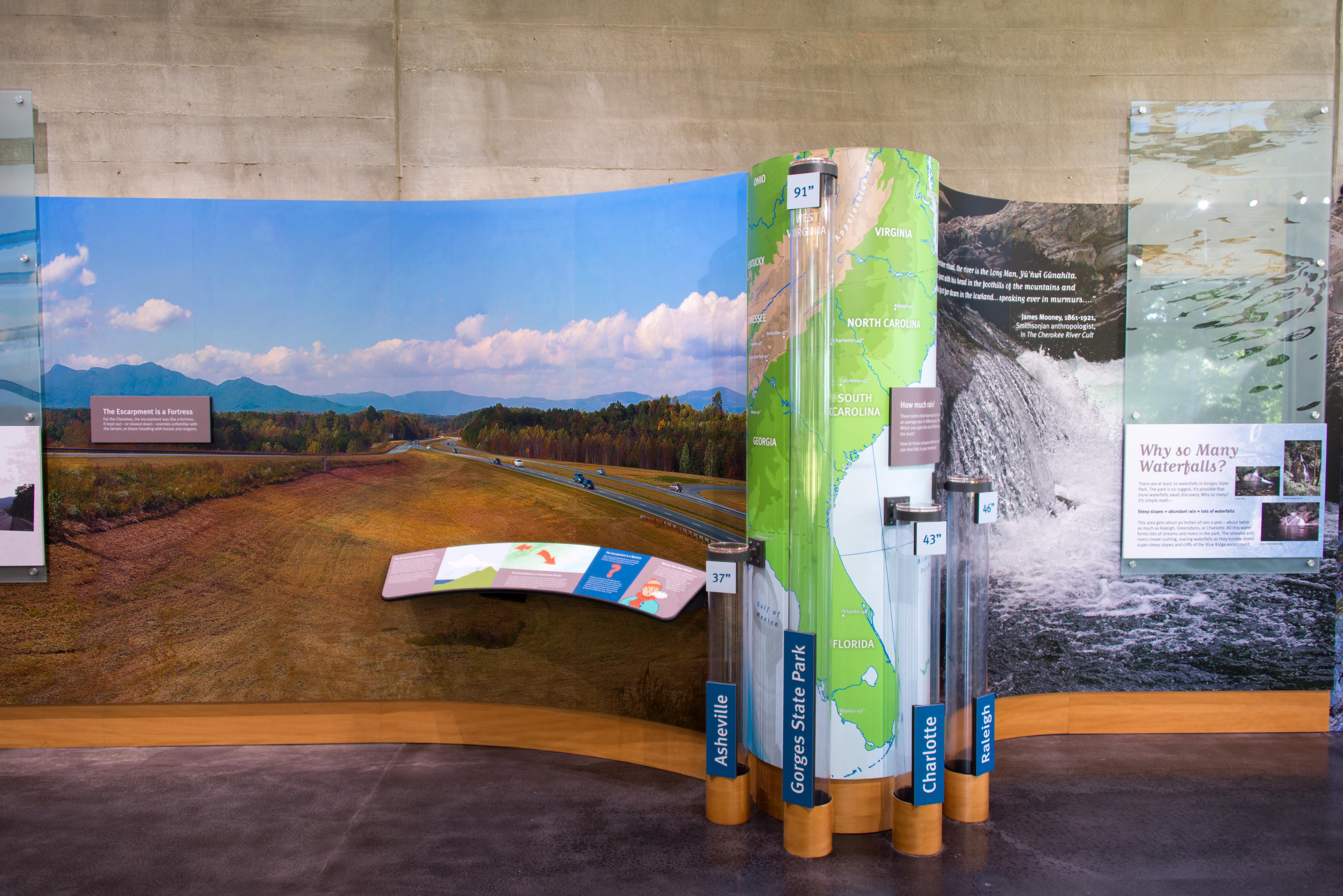 Learning about rainfall and other sciences at the Gorges State Park.